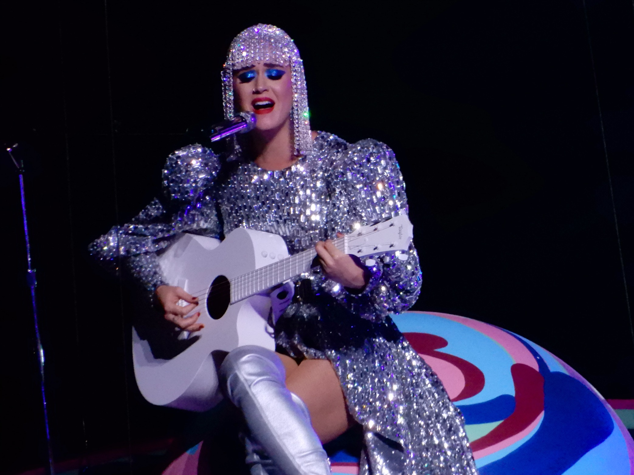 Katy Perry at Madison Square Garden